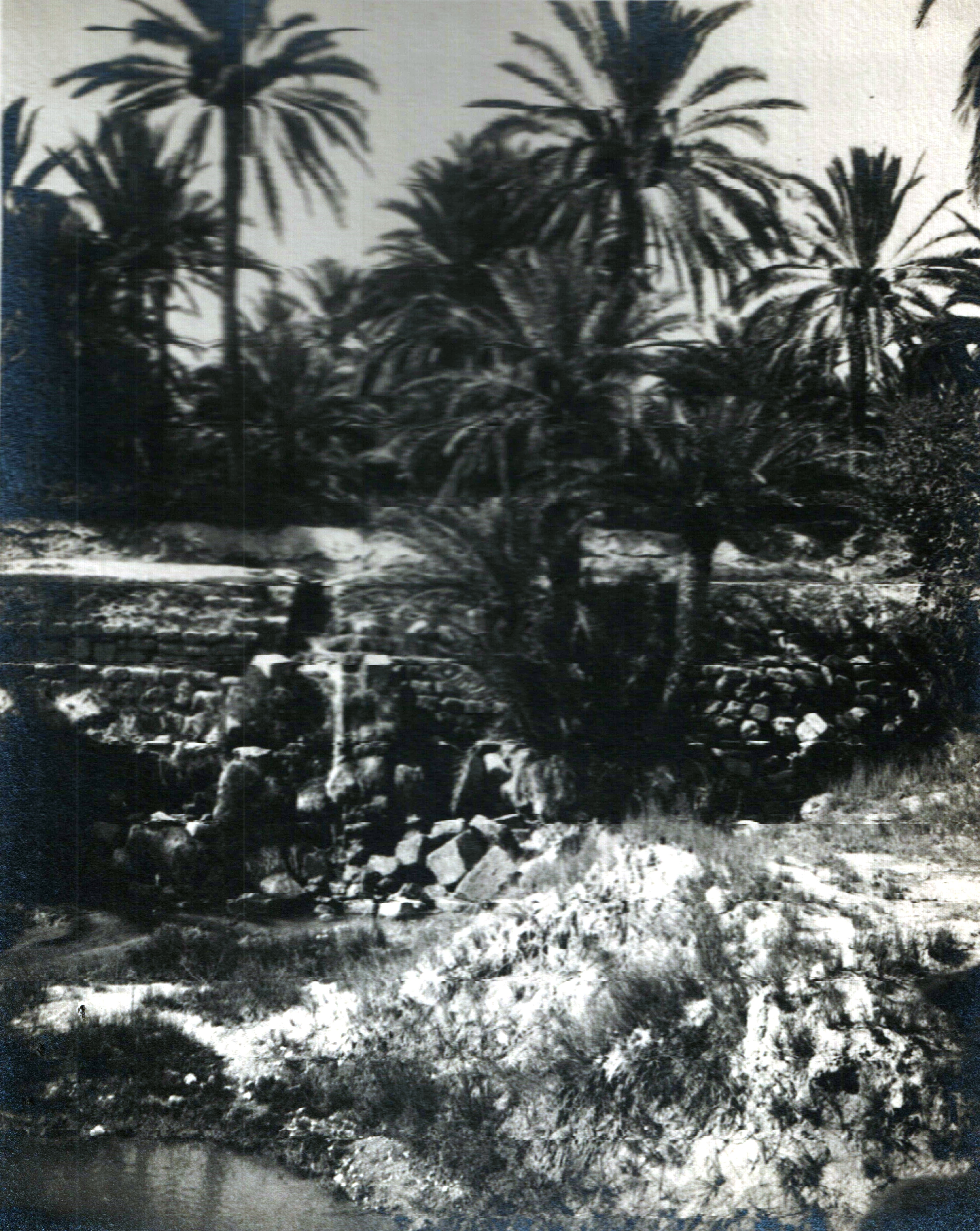 Scenes and images from Sahara and other sights of Africa.